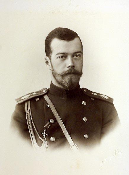 Russian Imperial Family Photo